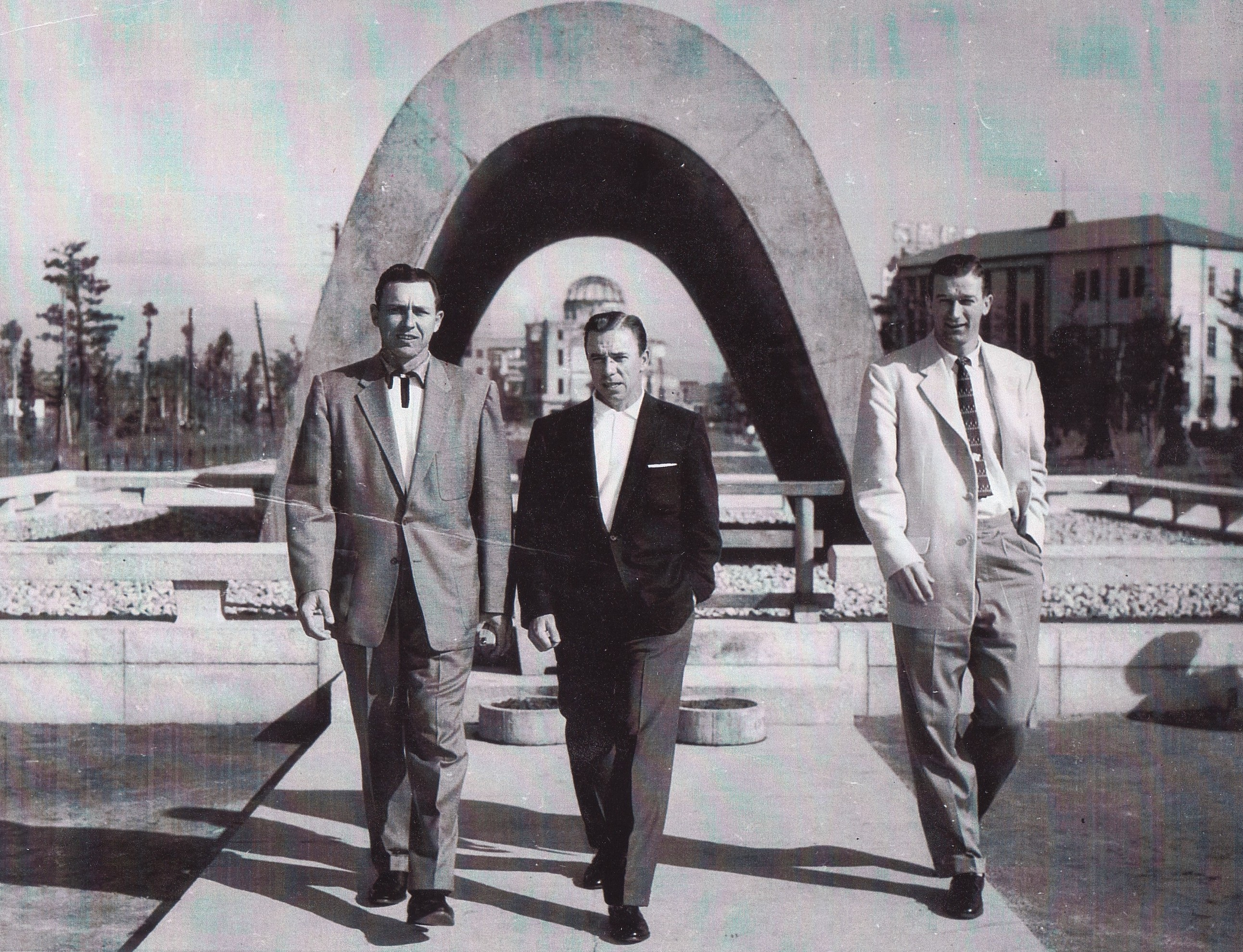 This picture was taken when the Brooklyn Dodgers were on their 1956 Goodwill Tour of Japan.